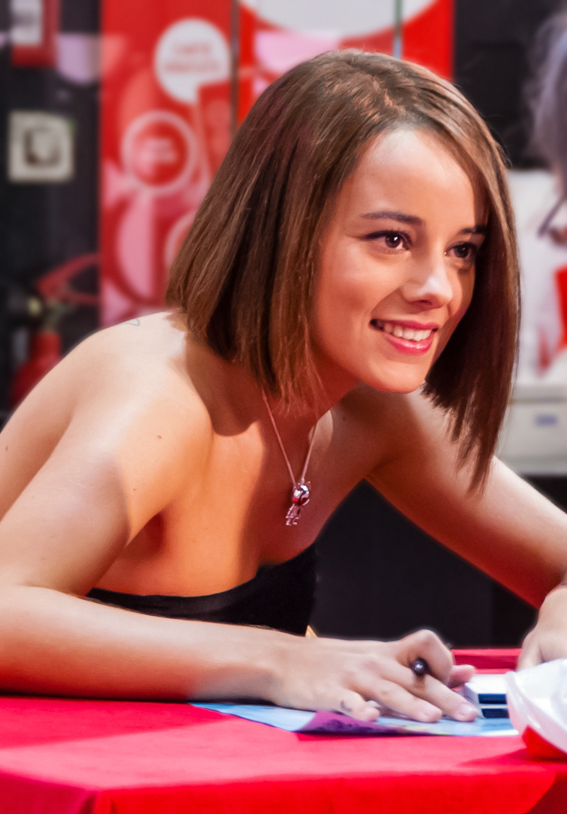 The photo represents Alizée Jacotey, French pop singer, in the public autograph session taken in place in Paris, 3rd of December, 2007.